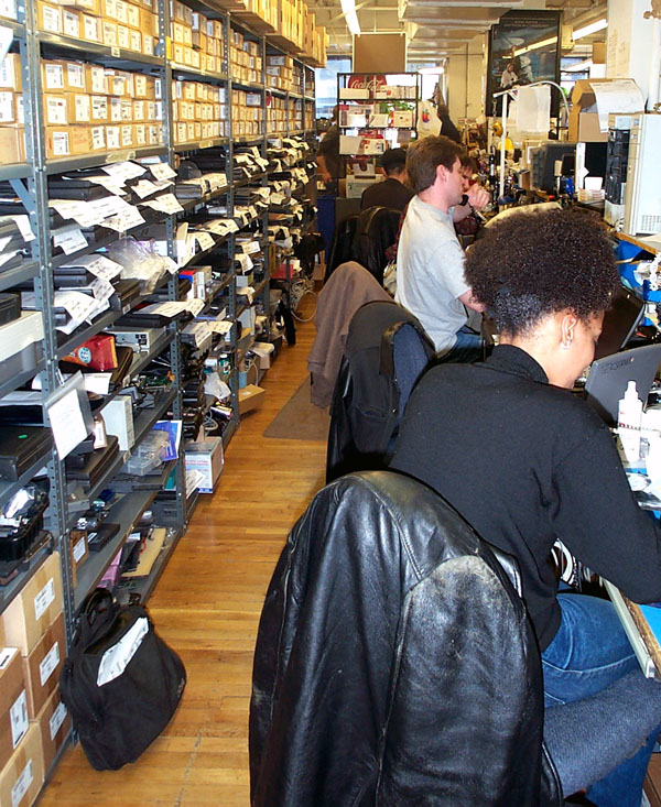 A photograph I took in 2000 of technicians working at a New York City computer repair shop.